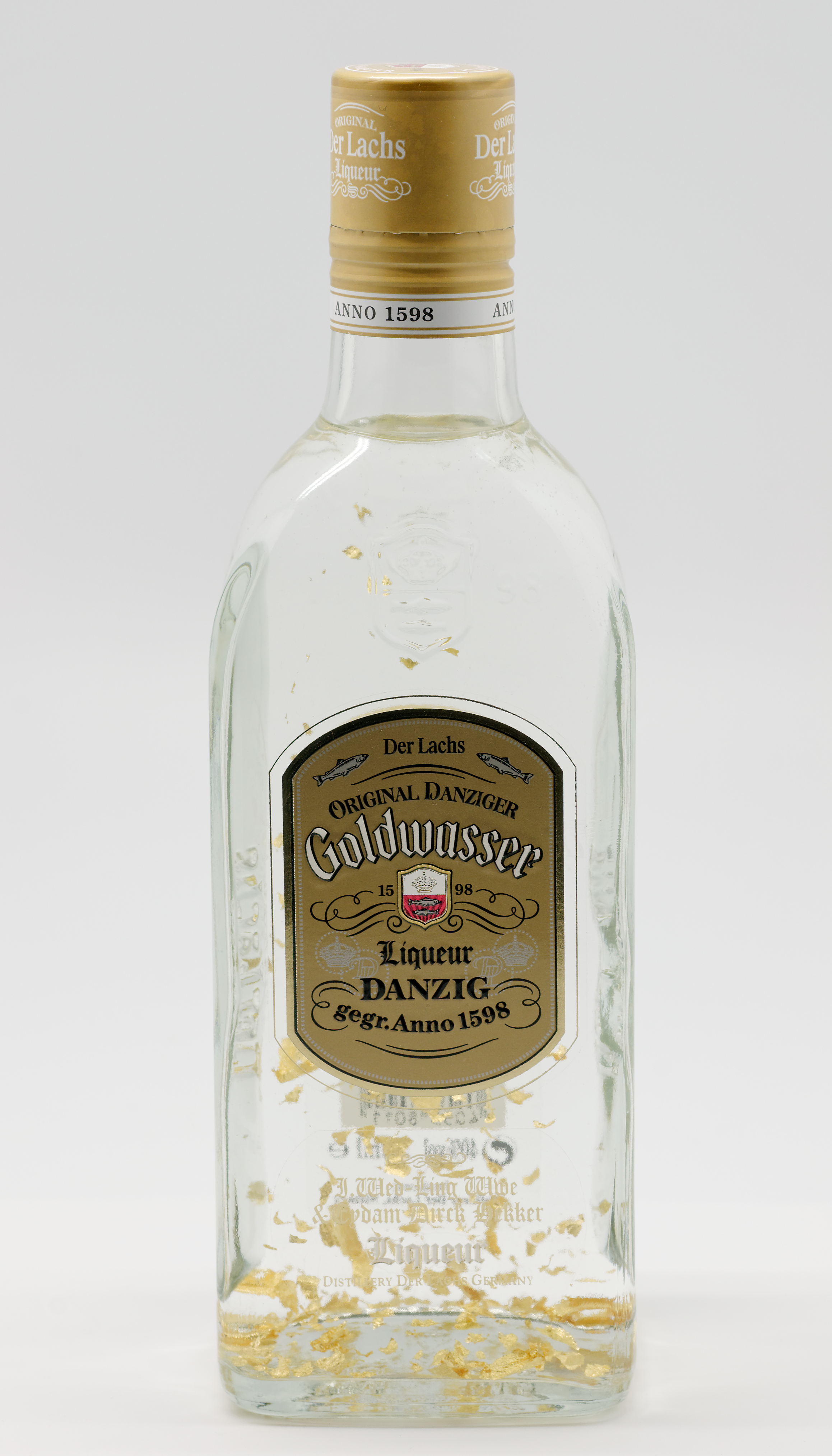 A bottle of Danziger Goldwasser ‘Der Lachs’.